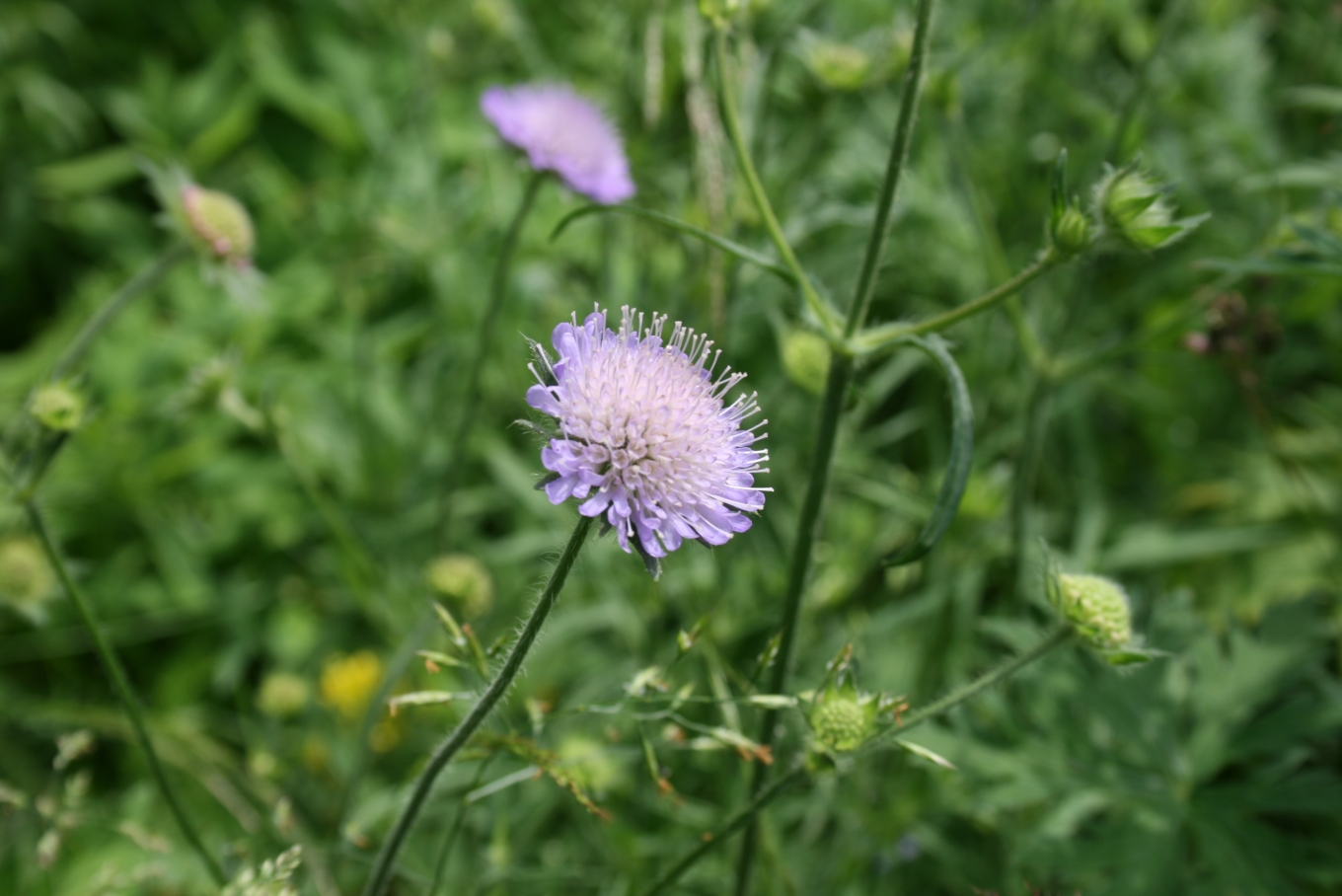 Knautia arvensis: Flower.